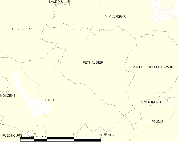 Map of French municipality Péchaudier